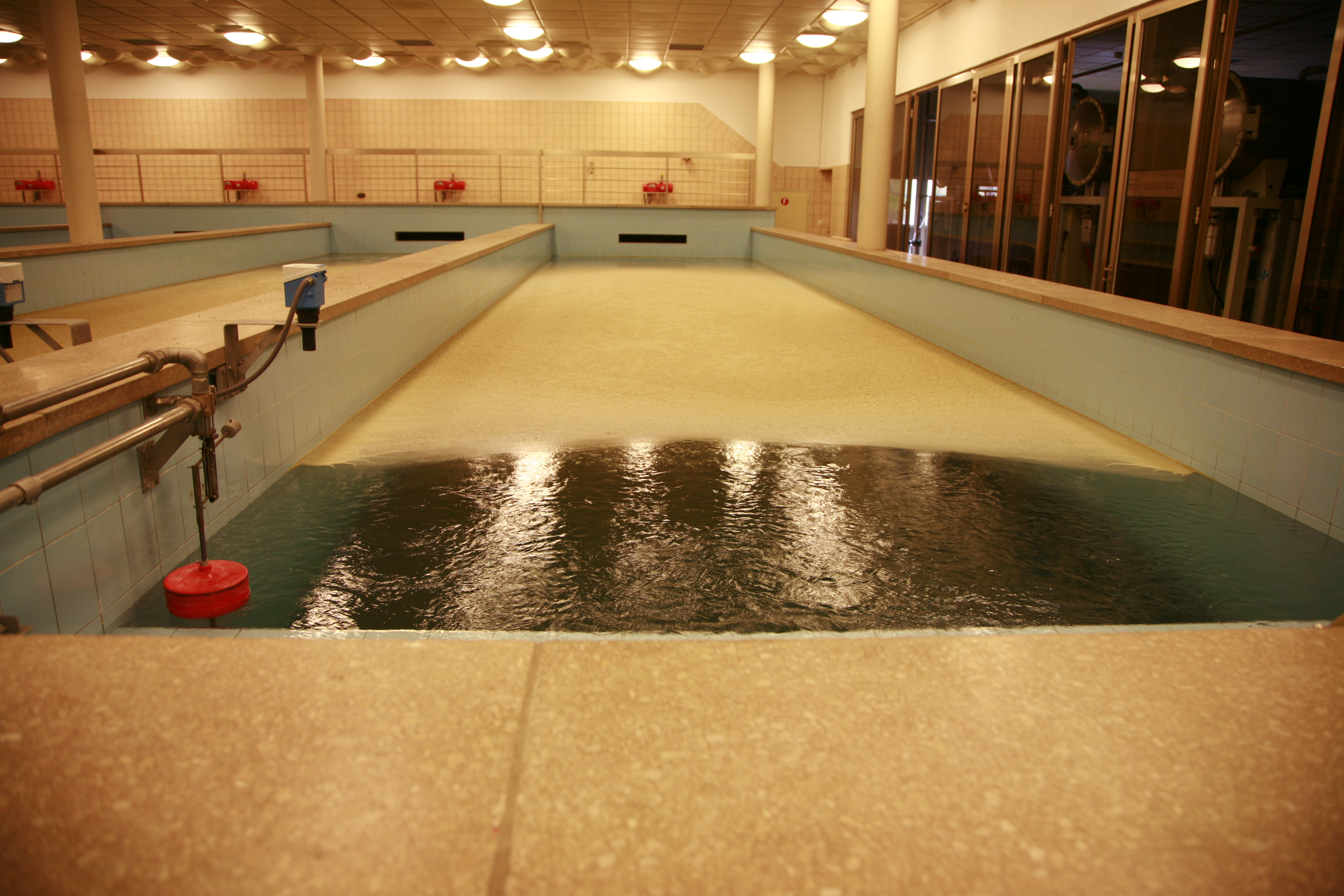 Water purification systems a Bret lake, Switzerland